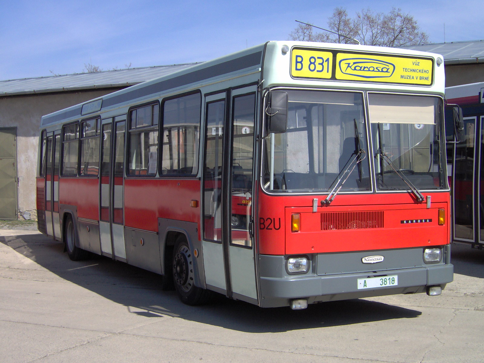 Historical Karosa B 831 prototype in Brno